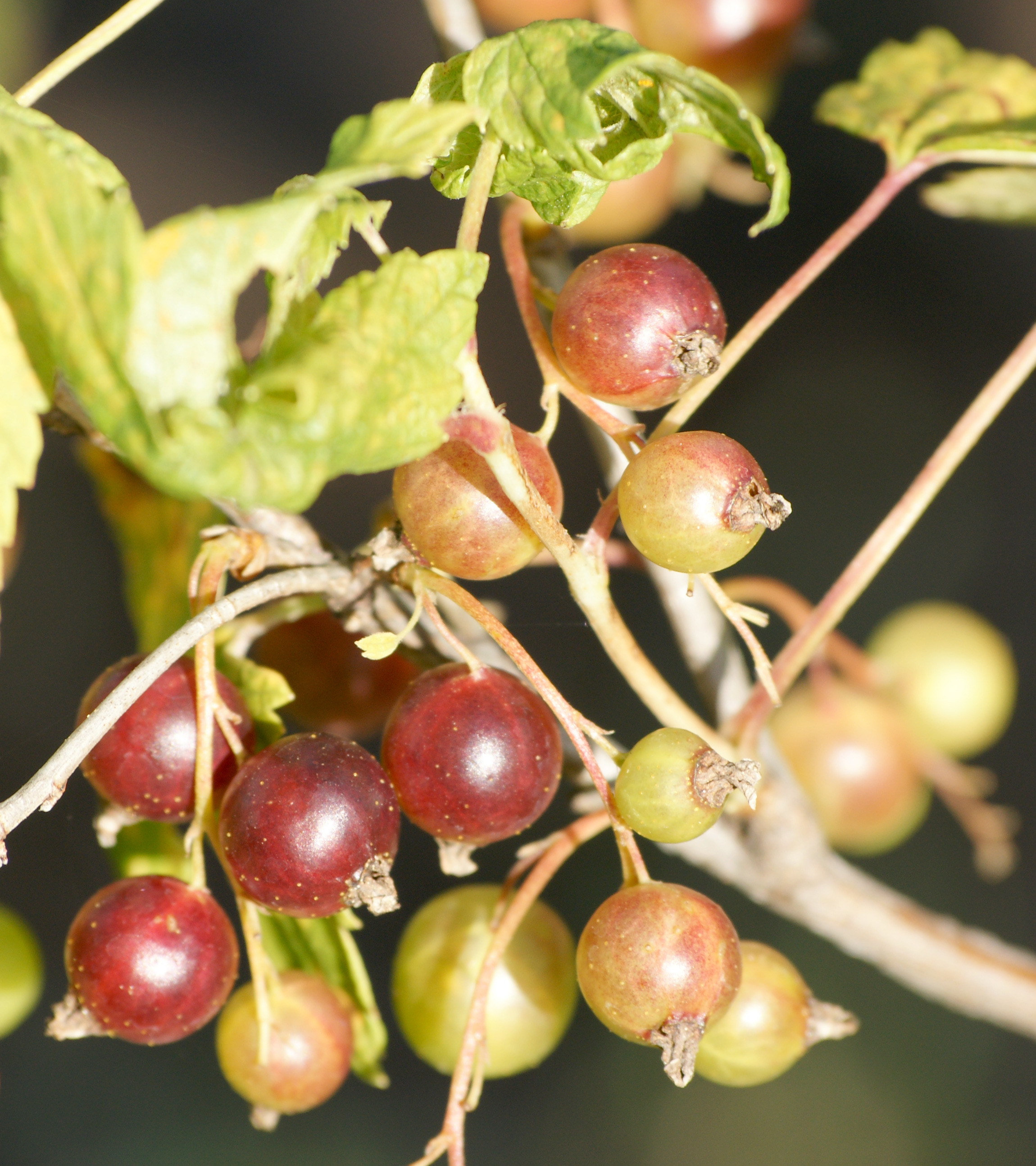 Ripening berries of a blackcurrant